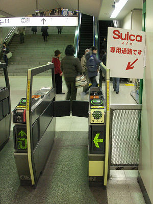 Fare control gates, supported iO-card and Suica. At JR Musashi-Shinjo Station (Kami-Shinjo, Nakahara, Kawasaki, Kanagawa, Japan.